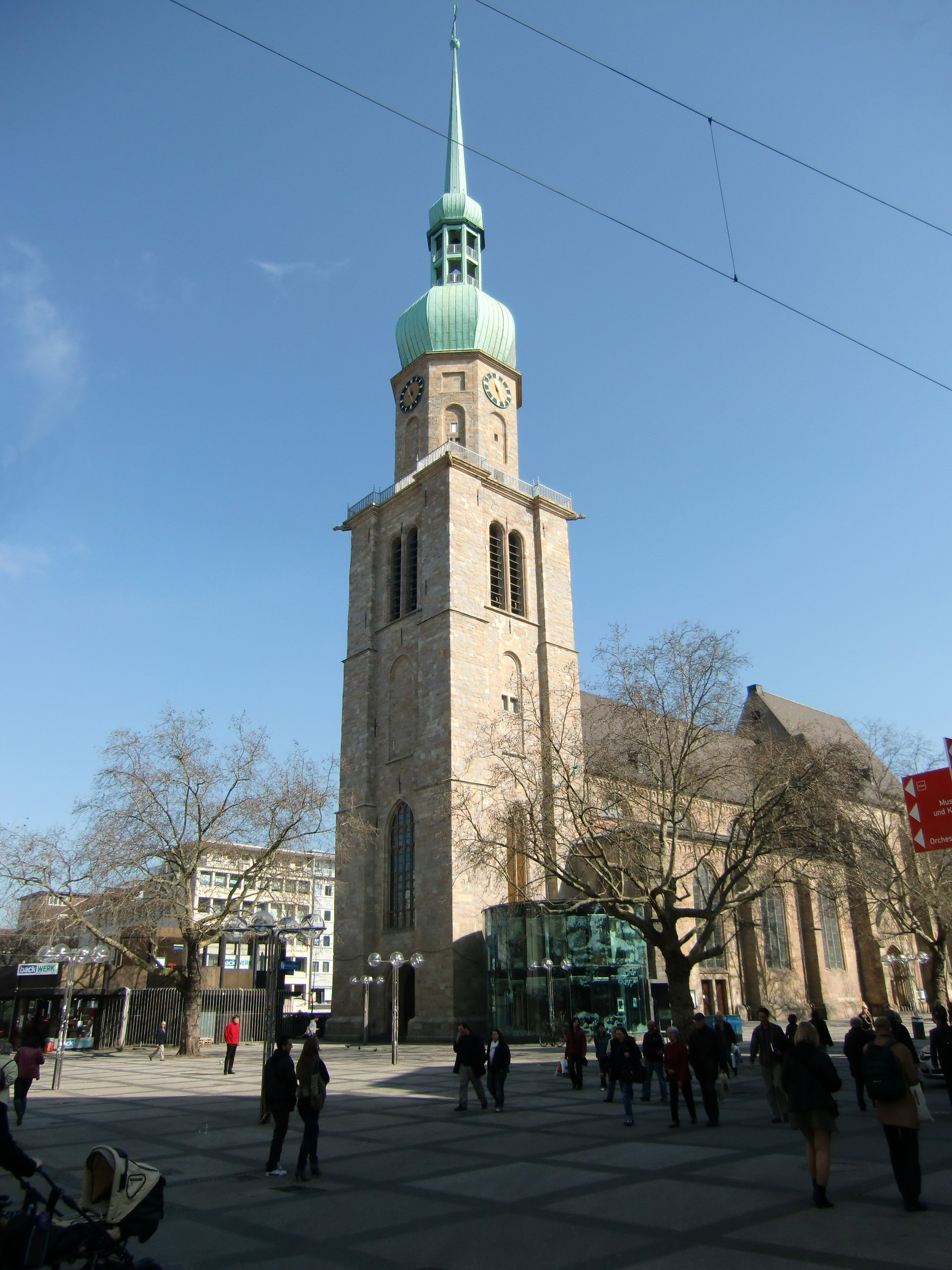 Reinoldi-Church